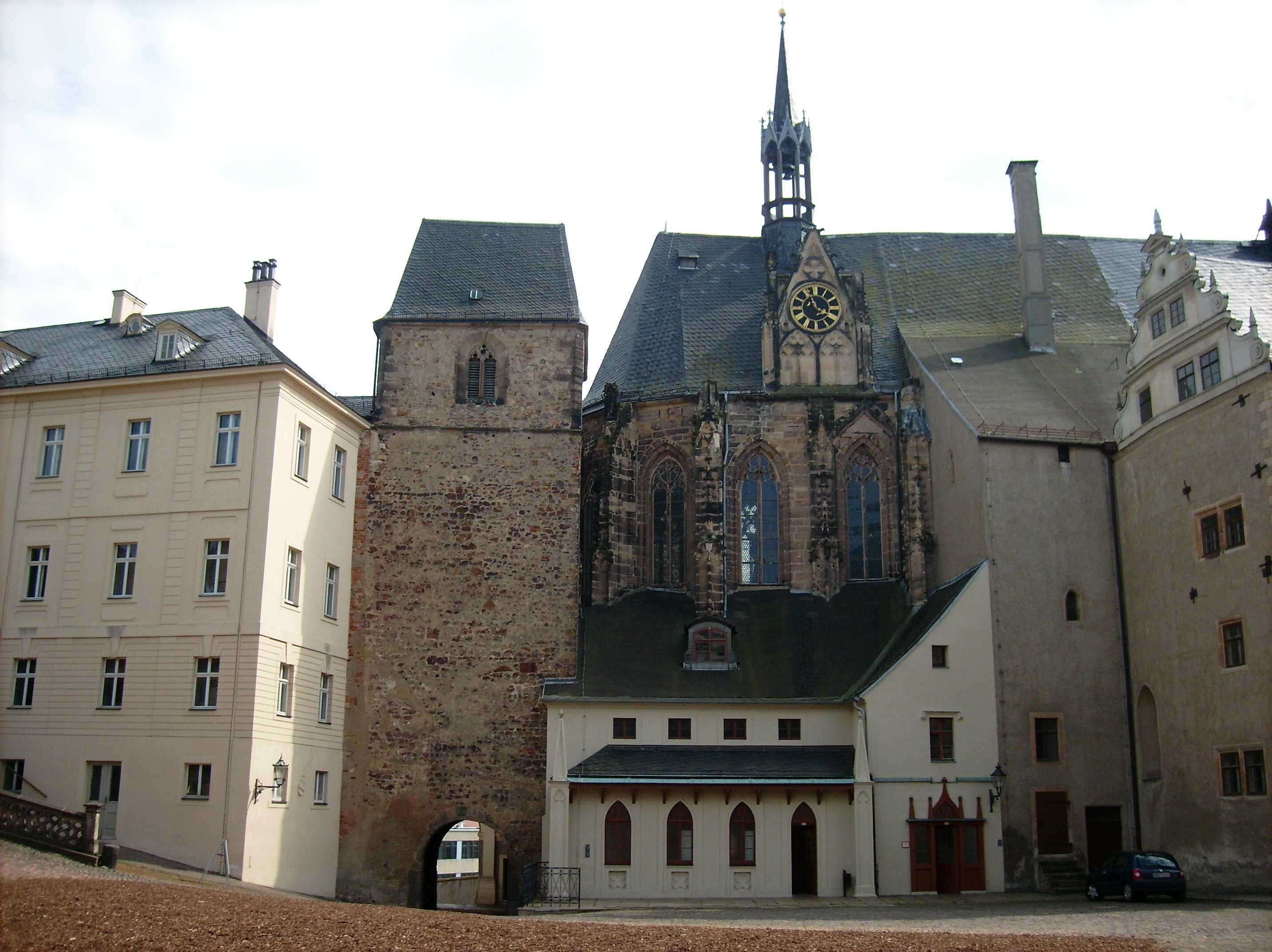 Church of Altenburg Castle, view from the courtyard (district of Altenburger Land, Thuringia)